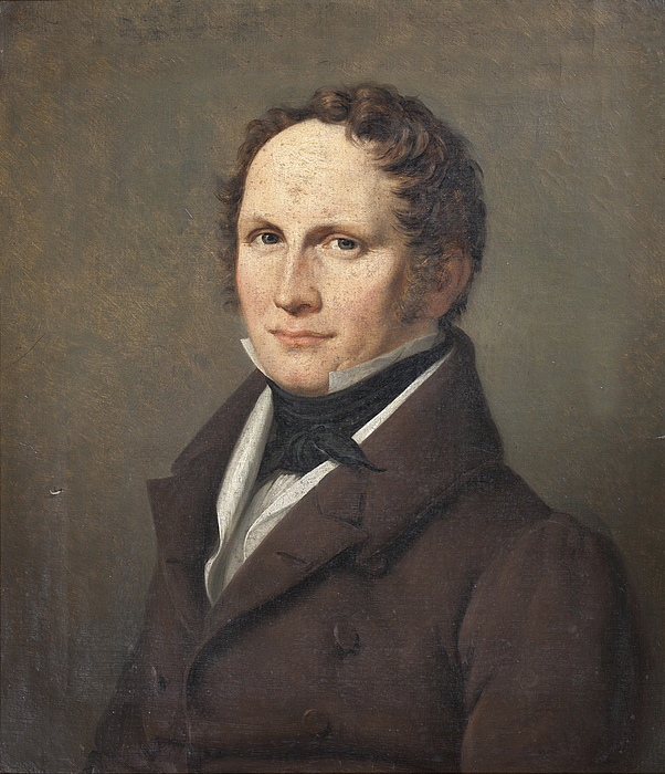 Just Mathias Thiele, 1832, Bakkehusmuseet